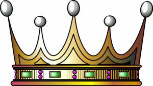 French Vicomte Crown